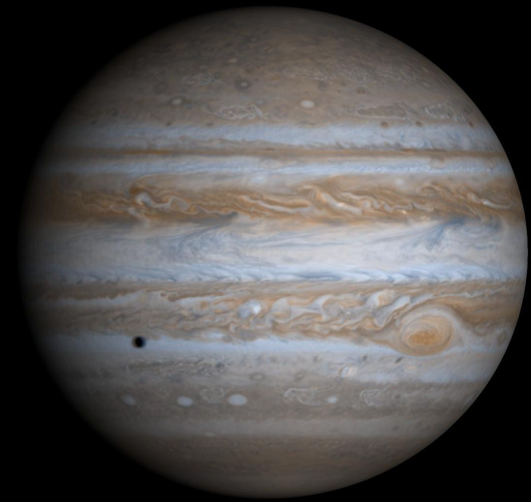 This true-color simulated view of Jupiter is composed of 4 images taken by NASA's Cassini spacecraft on December 7, 2000. To illustrate what Jupiter would have looked like if the cameras had a field-of-view large enough to capture the entire planet, the cylindrical map was projected onto a globe. The resolution is about 144 kilometers (89 miles) per pixel. Jupiter's moon Europa is casting the shadow on the planet.